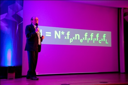 Conférence "EXO6TM" de Michel Viso (exobiologiste au CNES) durant le festival Sidération